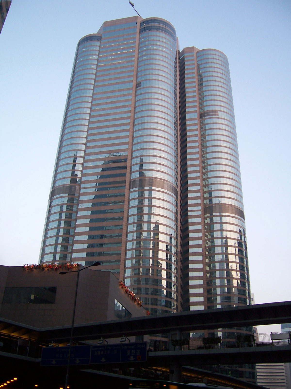 A building in Exchange Square (Hong Kong). Taken by Enoch Lau on 2 January 2006. As a courtesy, please let me know if you alter this image or this image description page. Original filename was 100_1260.JPG.